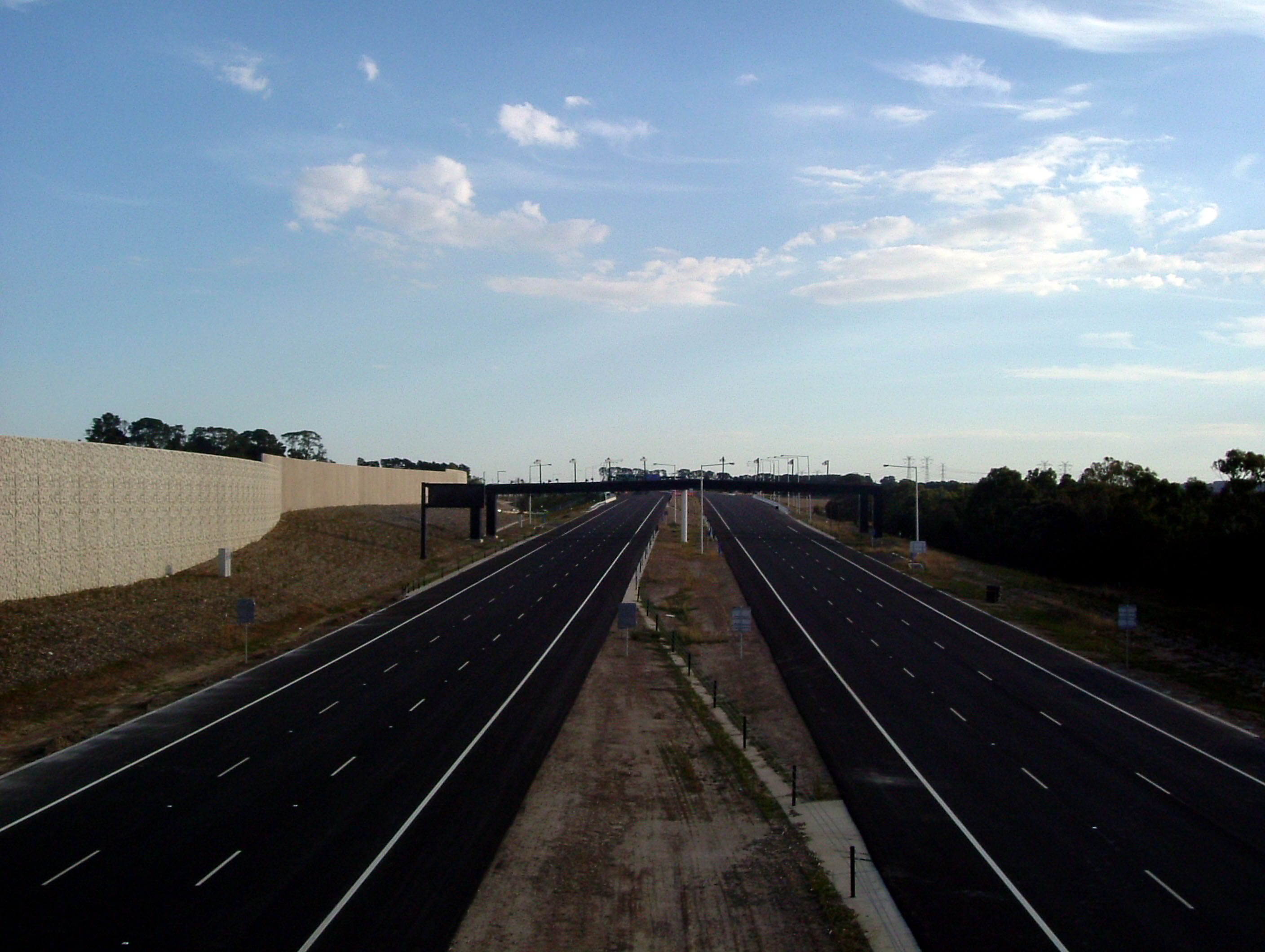 Photograph of EastLink, looking south from the Koomba Road pedestrian bridge. Can be used for any purpose for any reason.